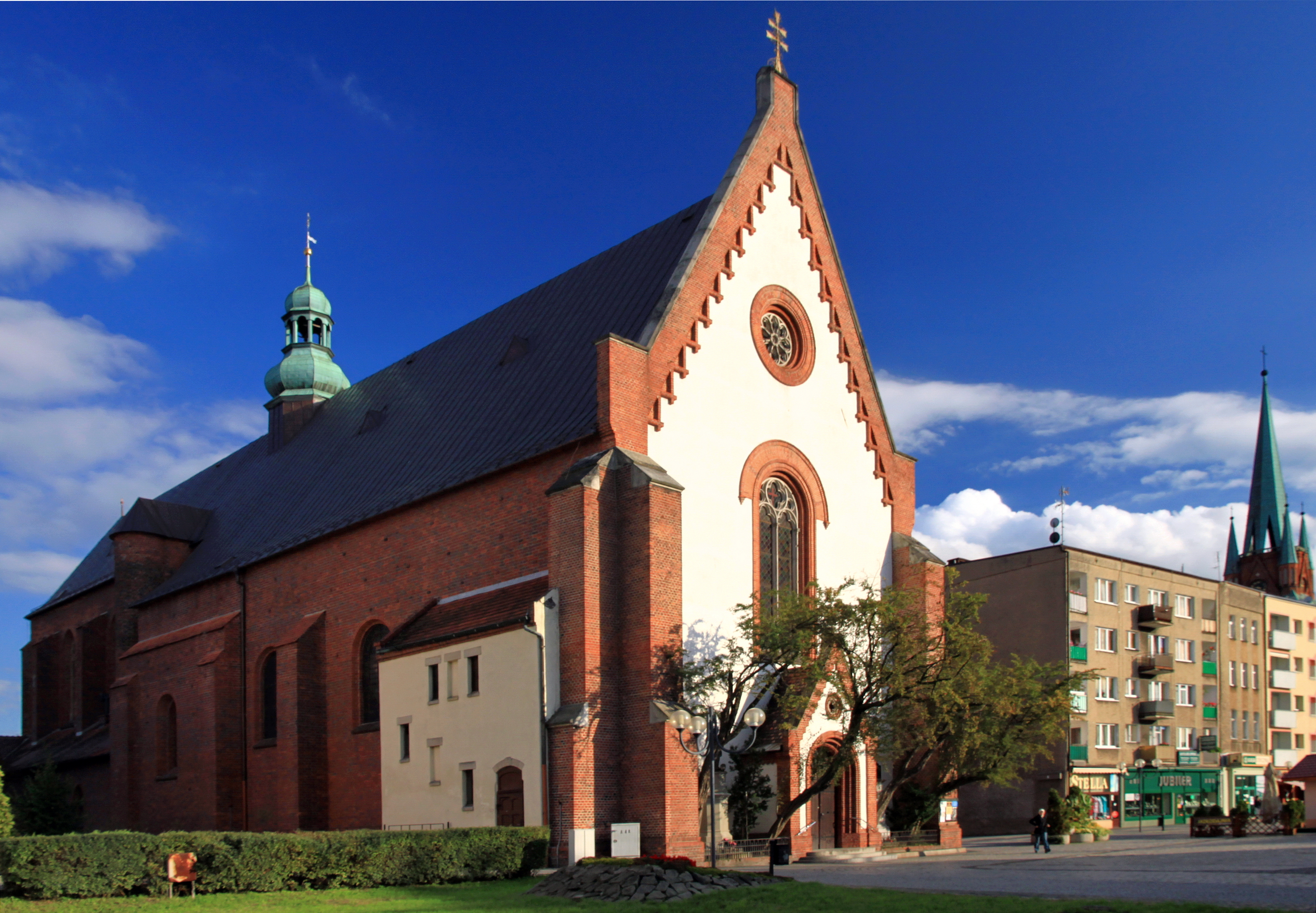 Racibórz, former Dominican Order church, now Saint James church, 13th century, 15th century, 1874, 1947